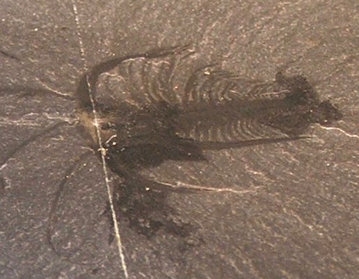 Fossil of Marrella splendens (Marrellomorpha).